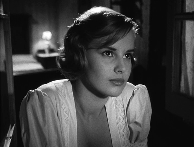 Antonella Lualdi in Cronache di poveri amanti (1954).